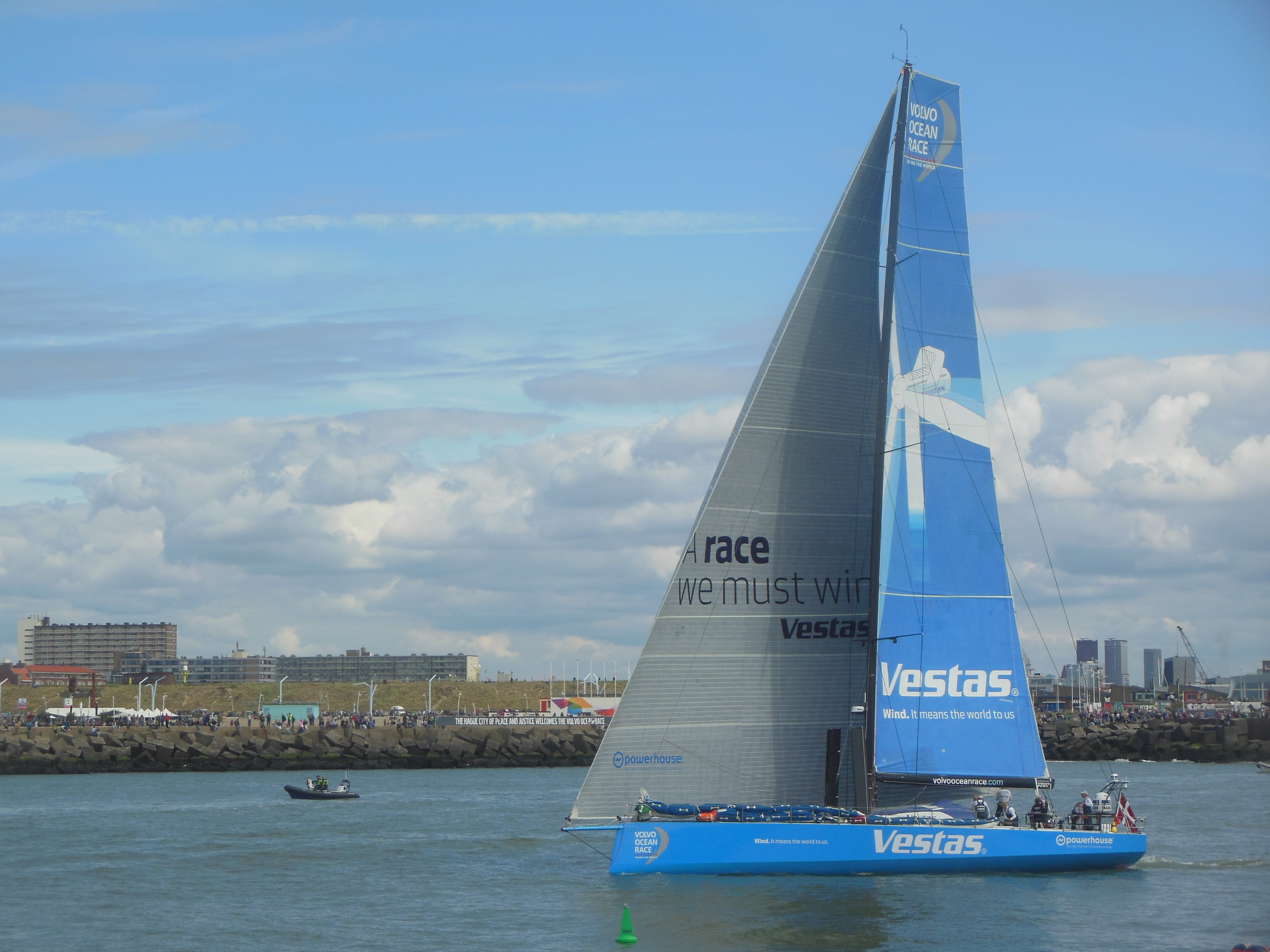 VO65 team Vestas Wind at the re-start after the pitstop in Scheveningen, Volvo Ocean Race 2014-15